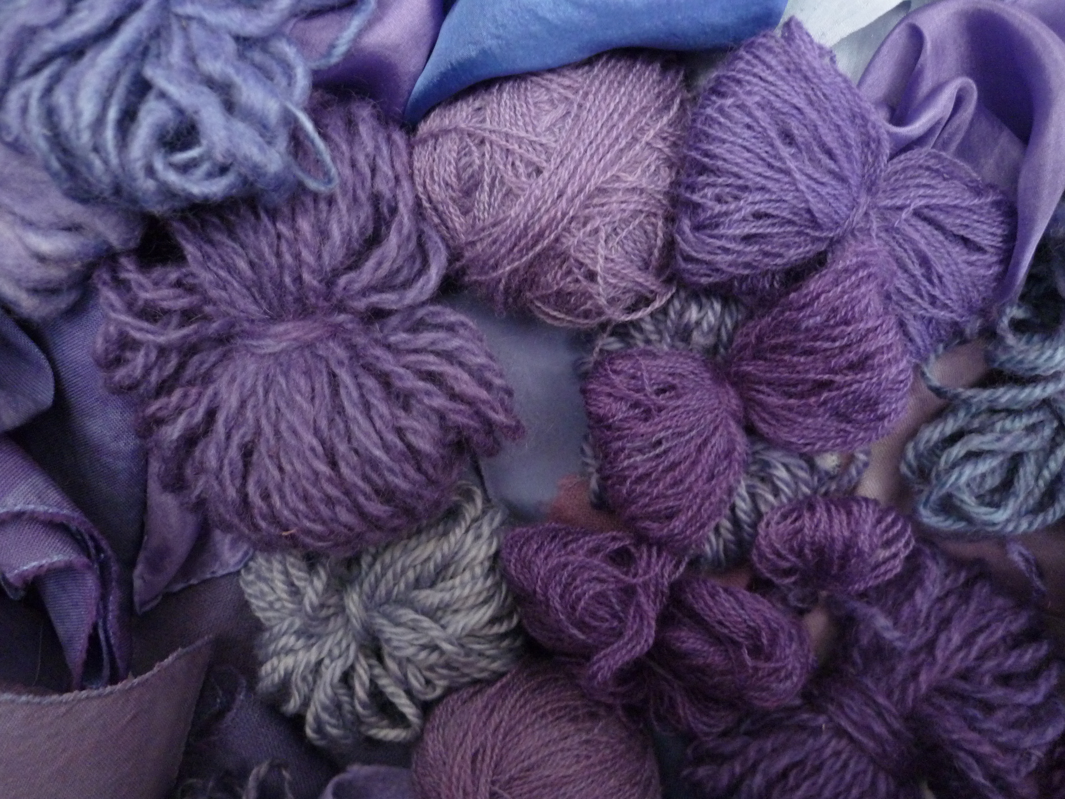 Wool dyed in a dye-bath with real purple